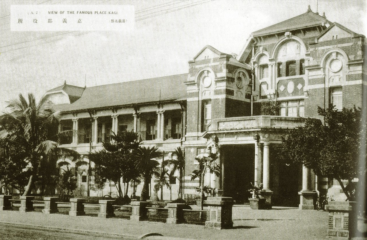 Kagi Gun-yakusho 嘉義郡役所